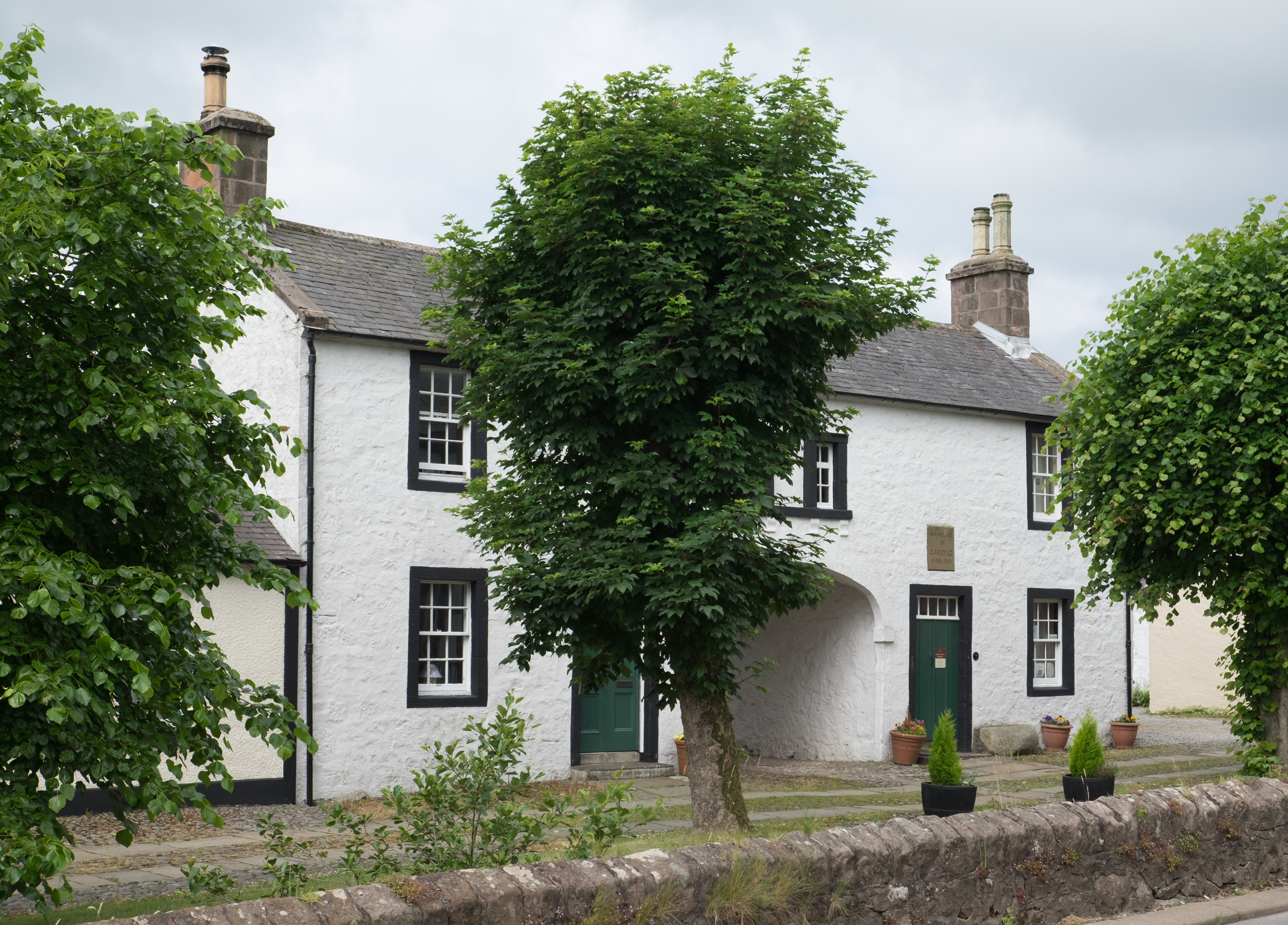 The birthplace of Thomas Carlyle, Ecclefechan, Scotland. This is a Category A Listed Building in Scotland.